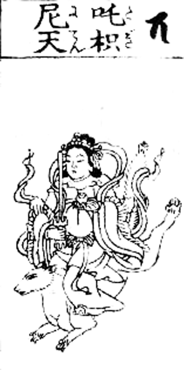 Dakini, as one of Buddhist deities.